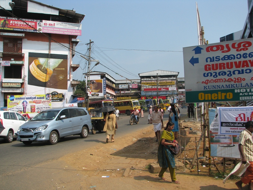 Kunnamkulam Bus Stand, Trichur District, Kerala